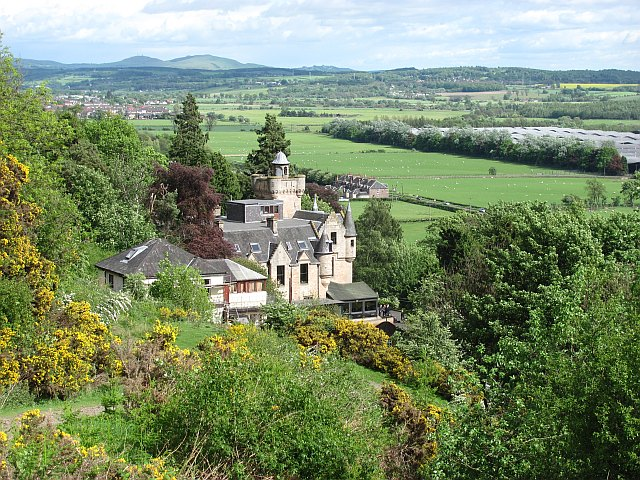 Broomhall Castle